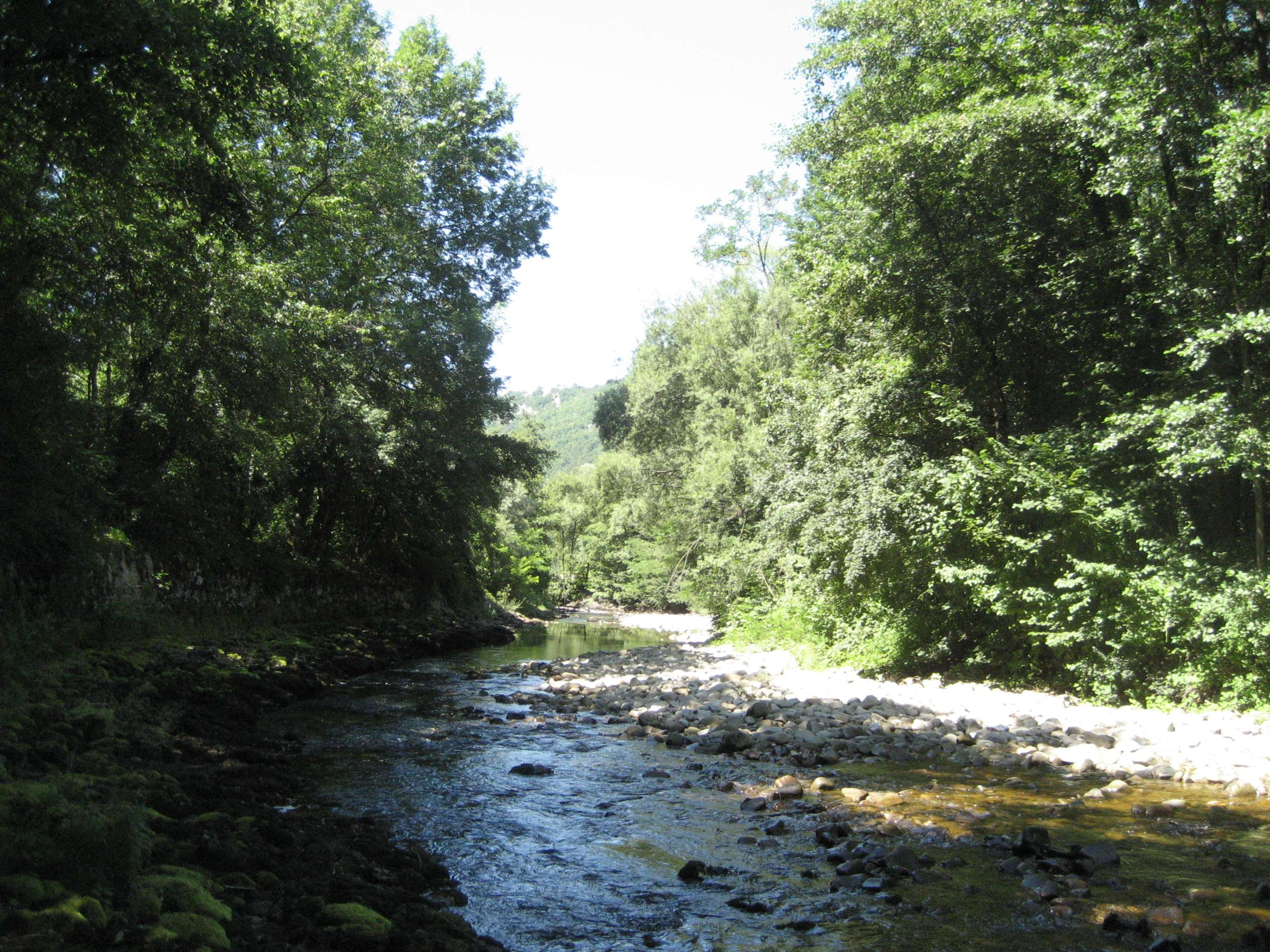 Rječina in Croatia